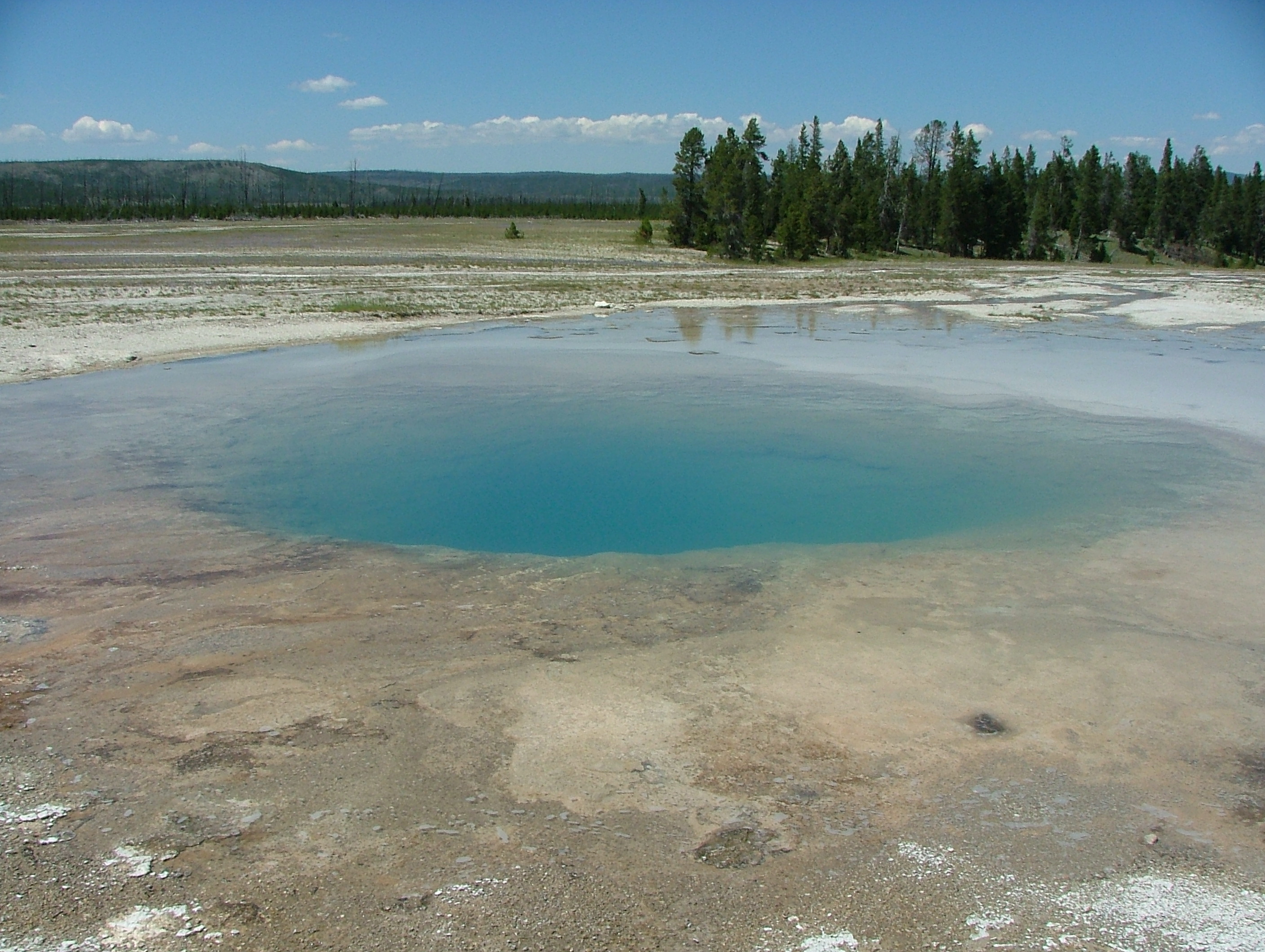 Turquoise Pool in the Midway Geyser Basin of Yellowstone National Park